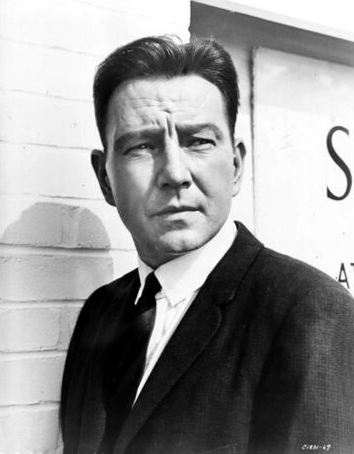 Publicity photo of Tom Drake in The Sandpiper (1965)